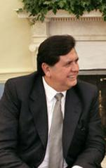 President Alan Garcia of Peru in the Oval Office Tuesday, Oct. 10, 2006.